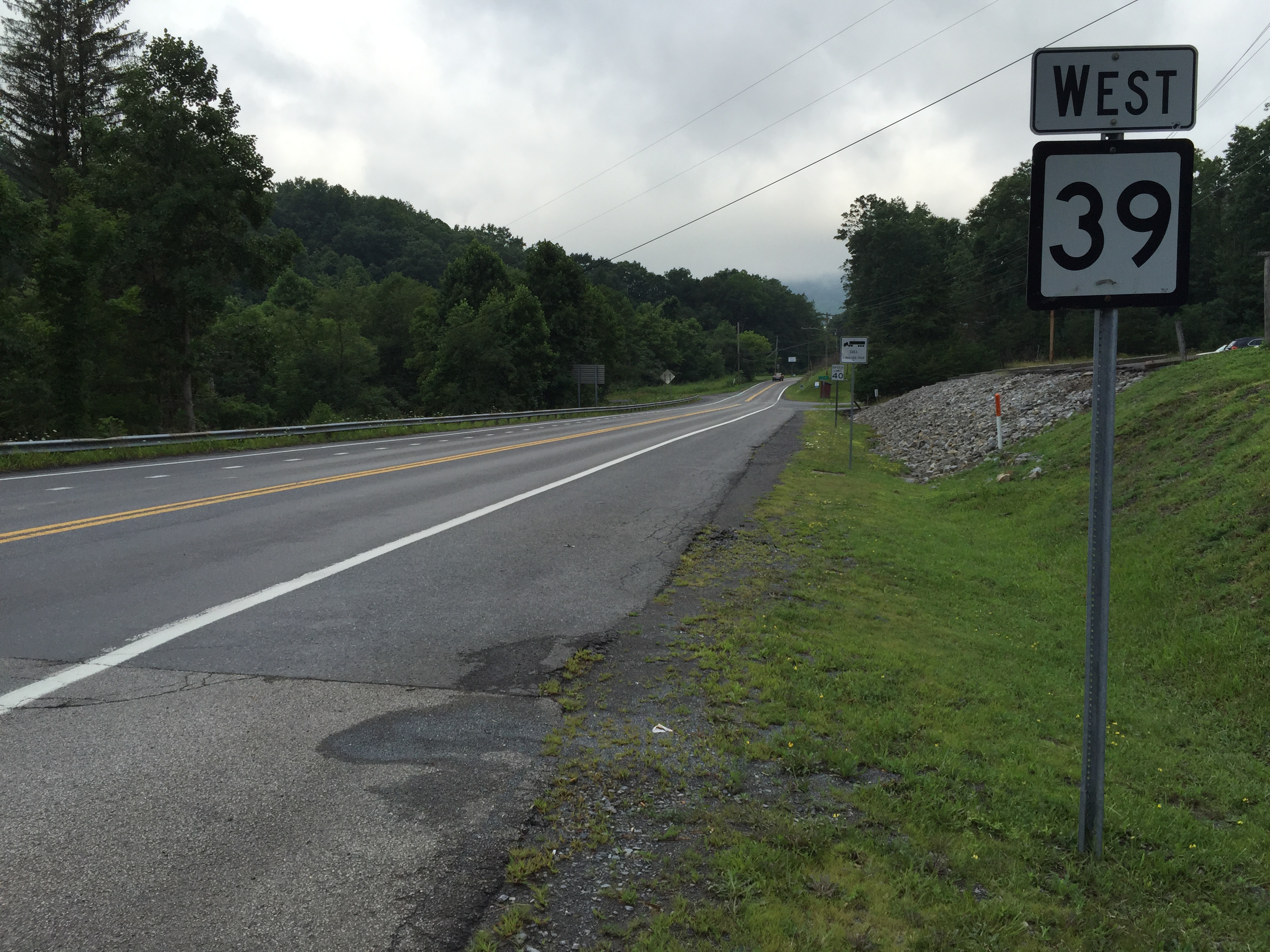 View west along West Virginia State Route 39 (Arbuckle Road) at U.S. Route 19 in Summersville, Nicholas County, West Virginia